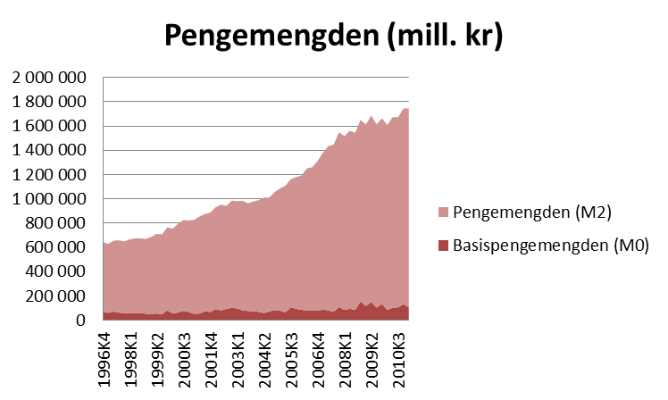 Money supply in Norway 1996-2011